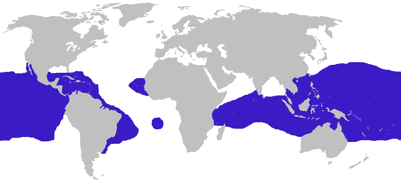 Range map of the frigatebirds, Fregatidae